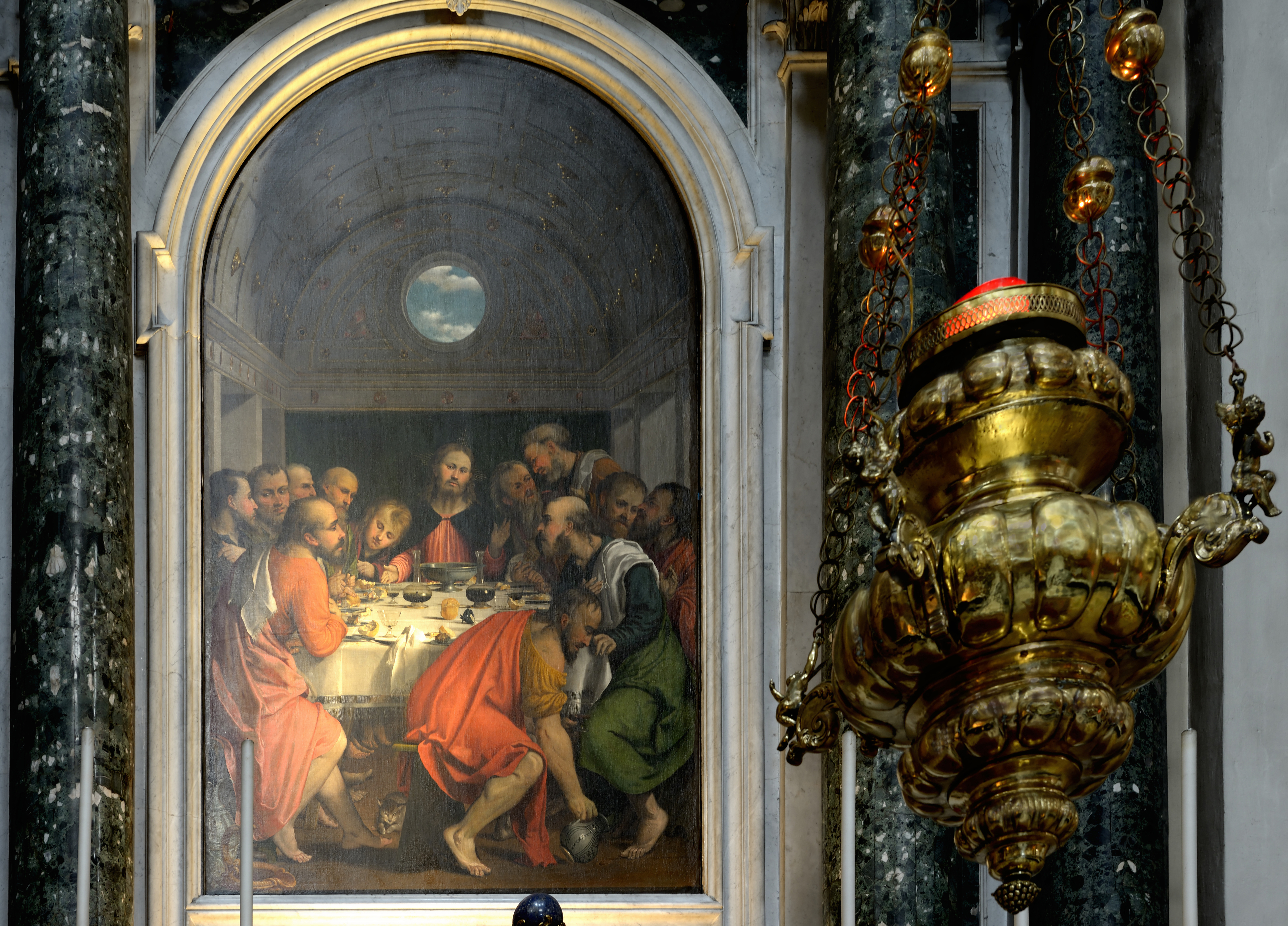 Painting of last supper by Romanino in the duomo in Montichiari.